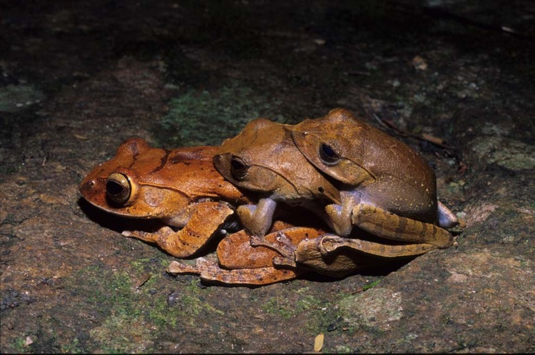 Boophis madagascariensis - female (left) and two males (one too much!) in amplexus.